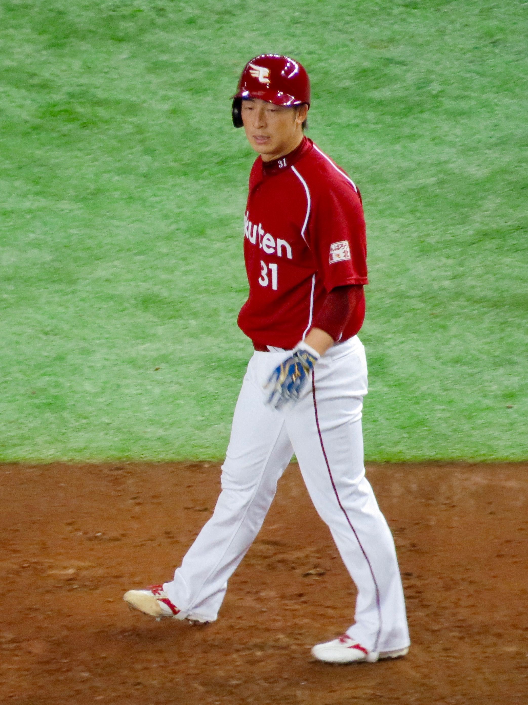 Manabu Mima, pitcher of the Tohoku Rakuten Golden Eagles, at Tokyo Dome